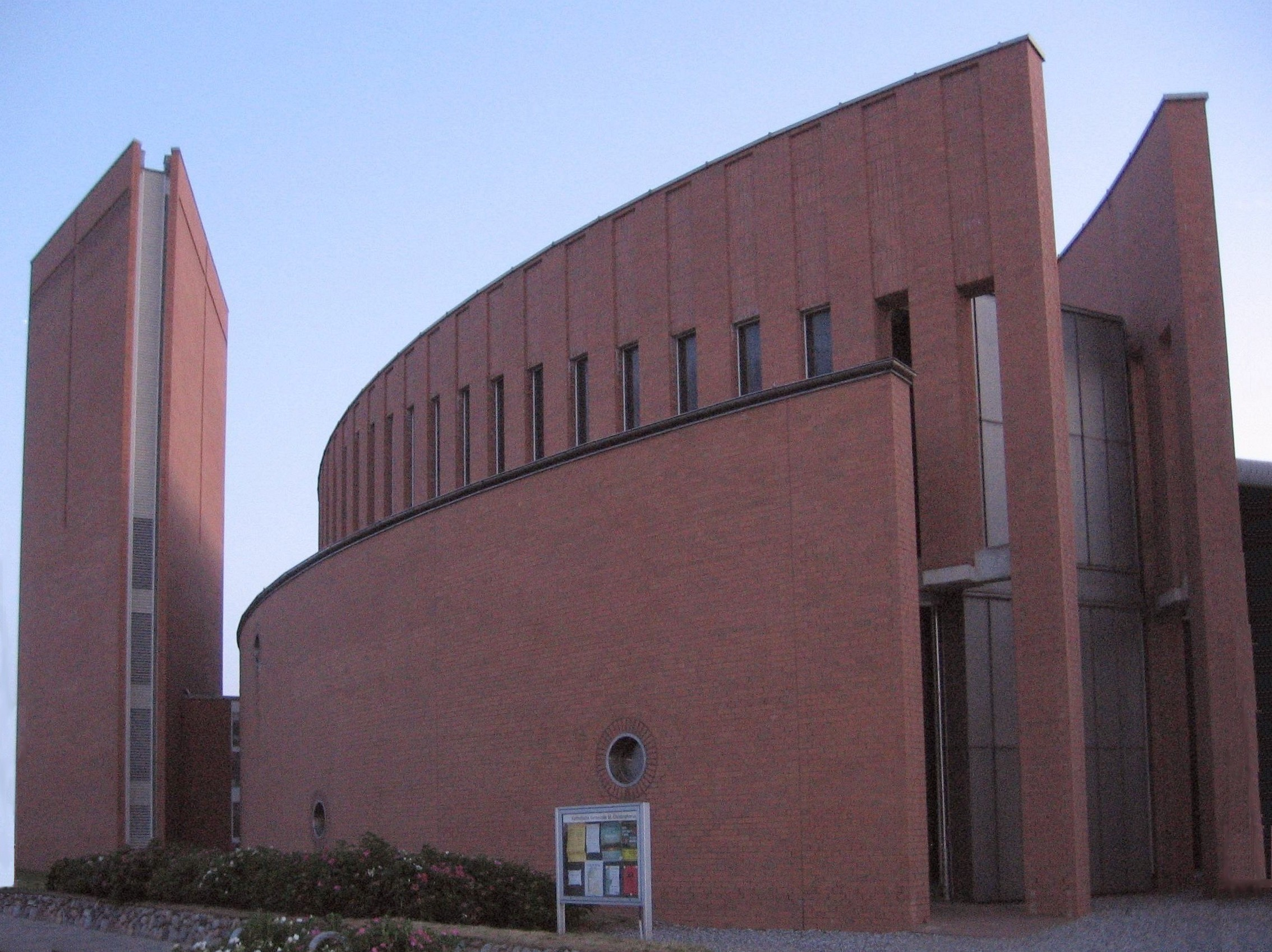 The catholic St. Christophers Church in Westerland, Germany.